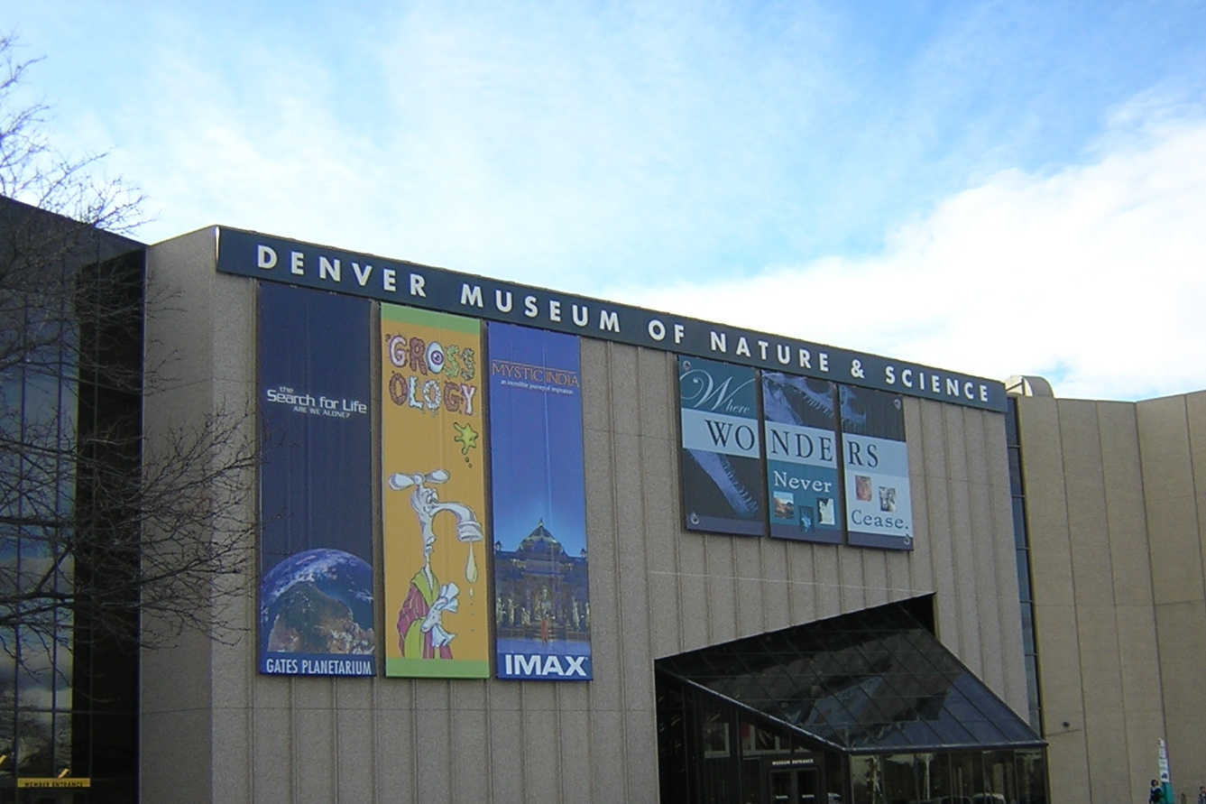 Denver Museum of Nature and Science Photo taken on December 30, 2005 by MisterHand